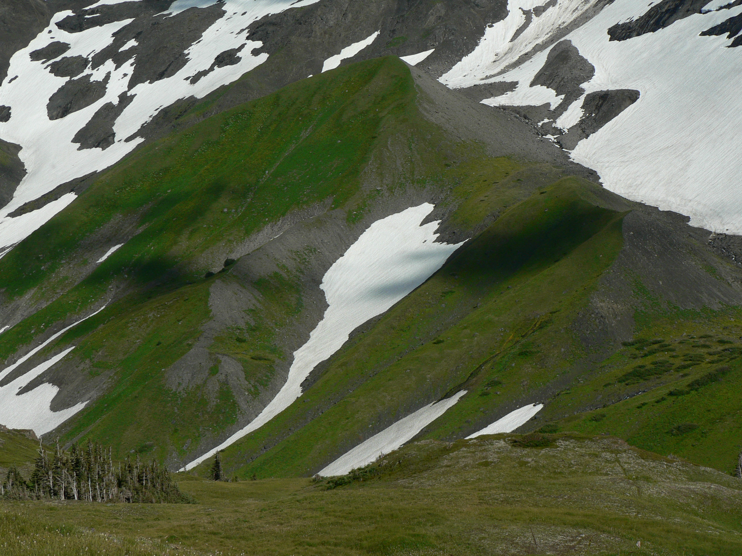 Marmot Ridge Moraine; snowfields